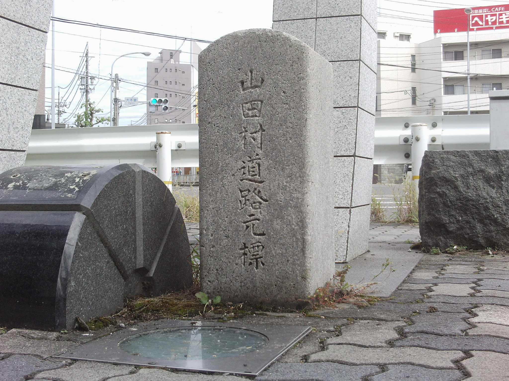 Kilometre zero of Yamada village. (Yamada village, Nishikasugai-gun, Aichi.)